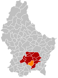 Own edit of Kanton LuxemburgLocatie.png